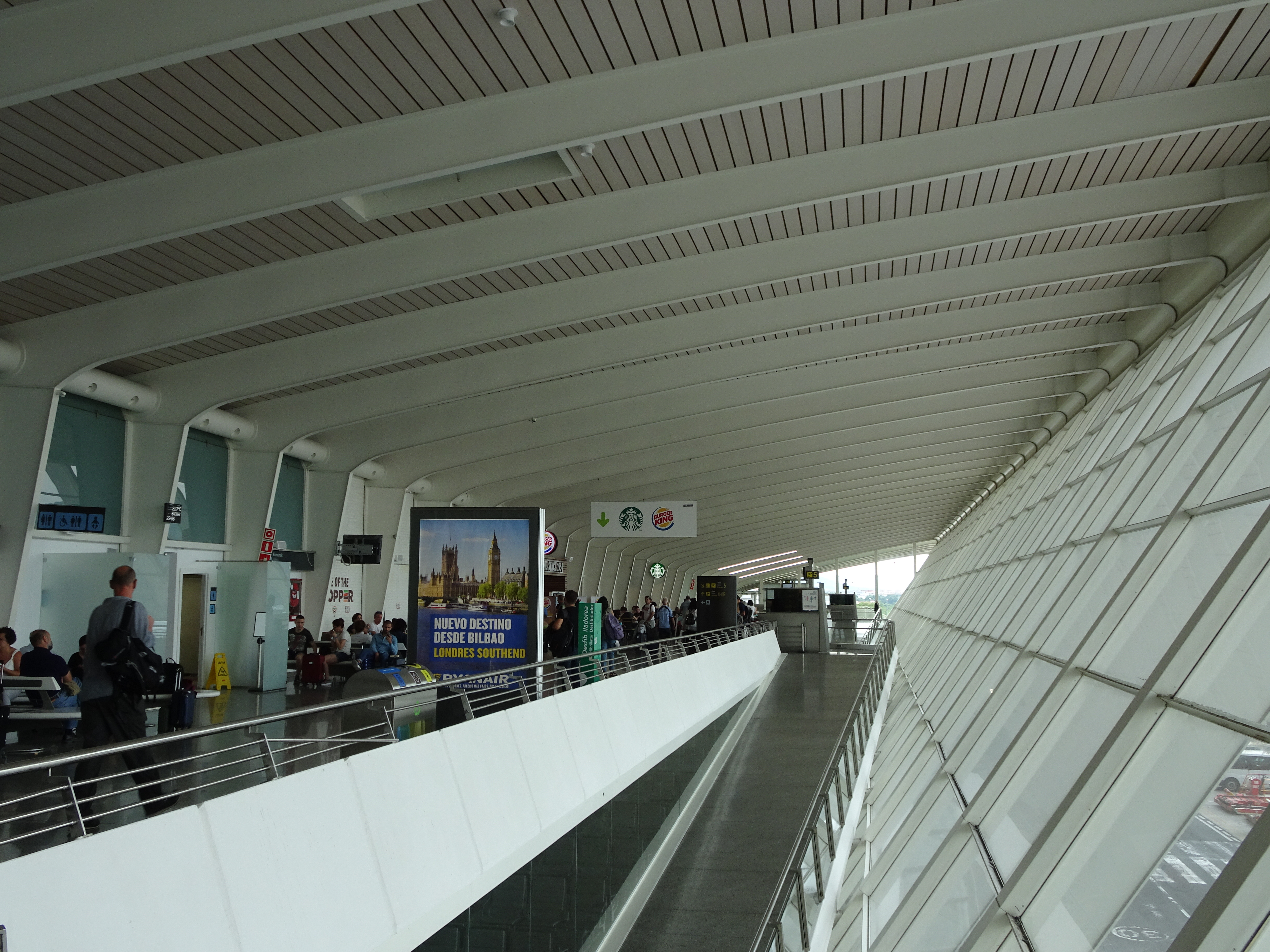 Bilbao Airport, 23 June 2019. Designed by Santiago Calatrava and opened in 2000. The terminal is nicknamed 'The Dove'. Pictured is the depatures area.